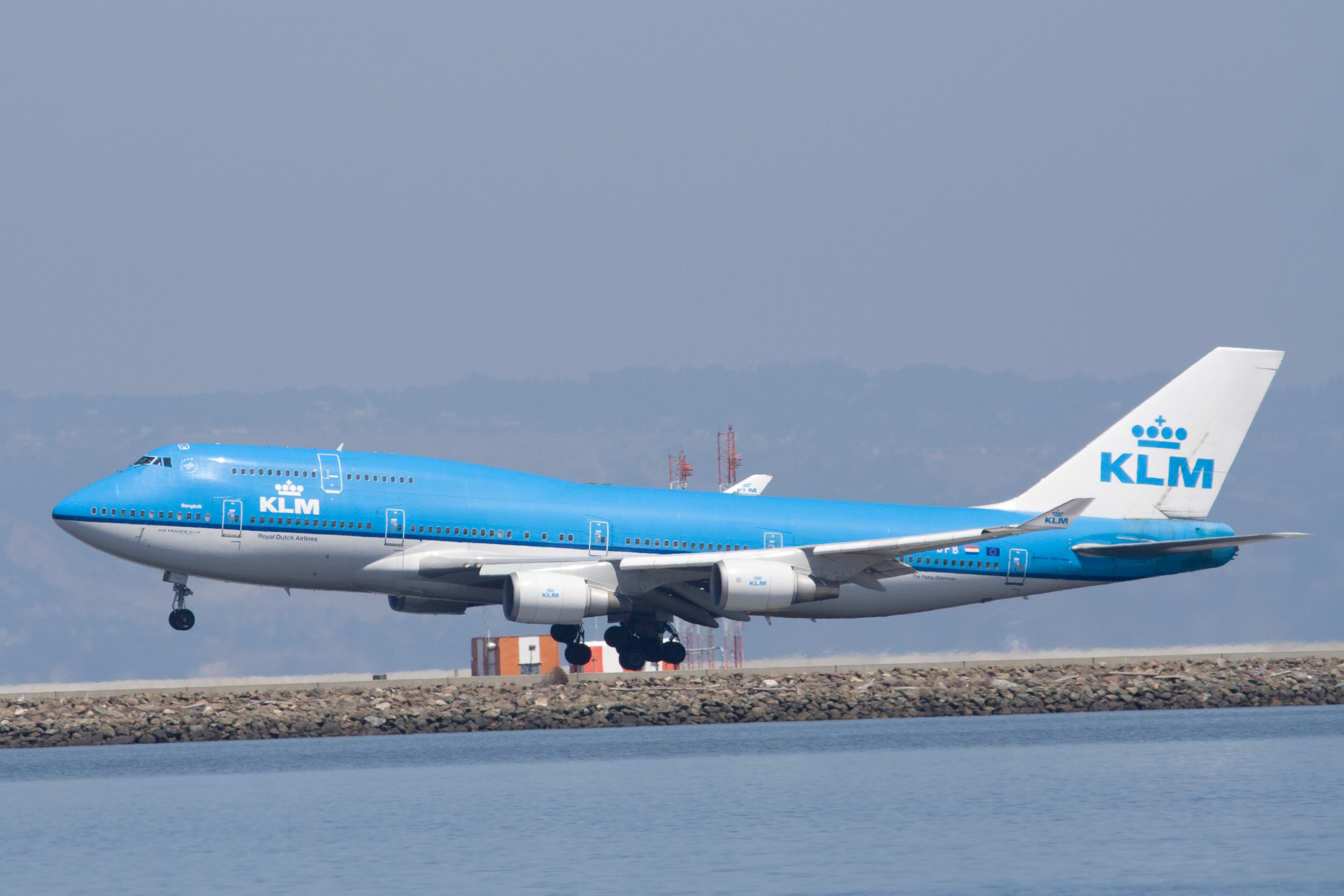 Touchig down on 28L